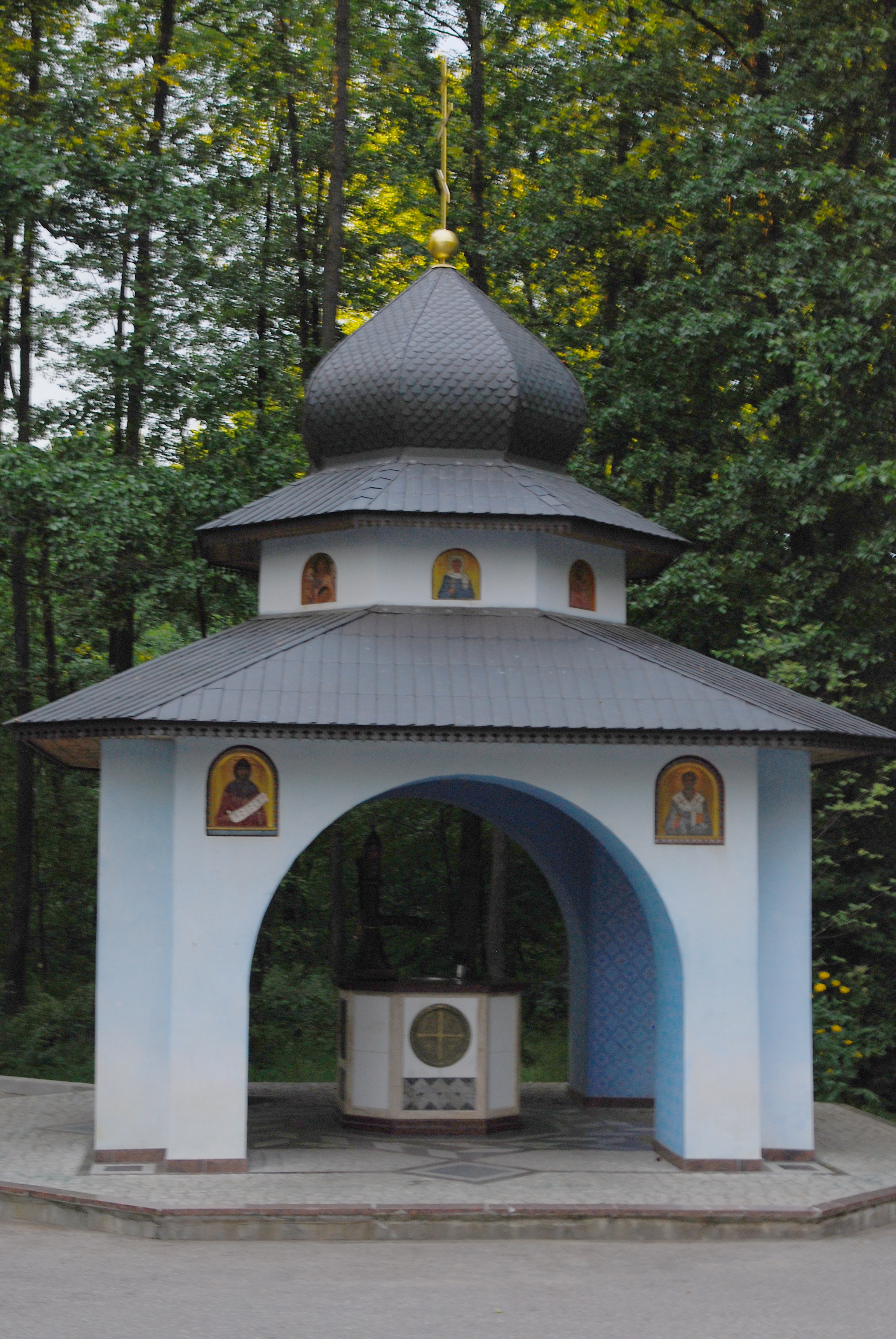 This photo from Podlaskie Voievodeship was taken during Polish Wikiexpedition 2009 set up by Wikimedia Polska Association. The making of this document was supported by Wikimedia Polska. Święte źrodło na górze Grabarka